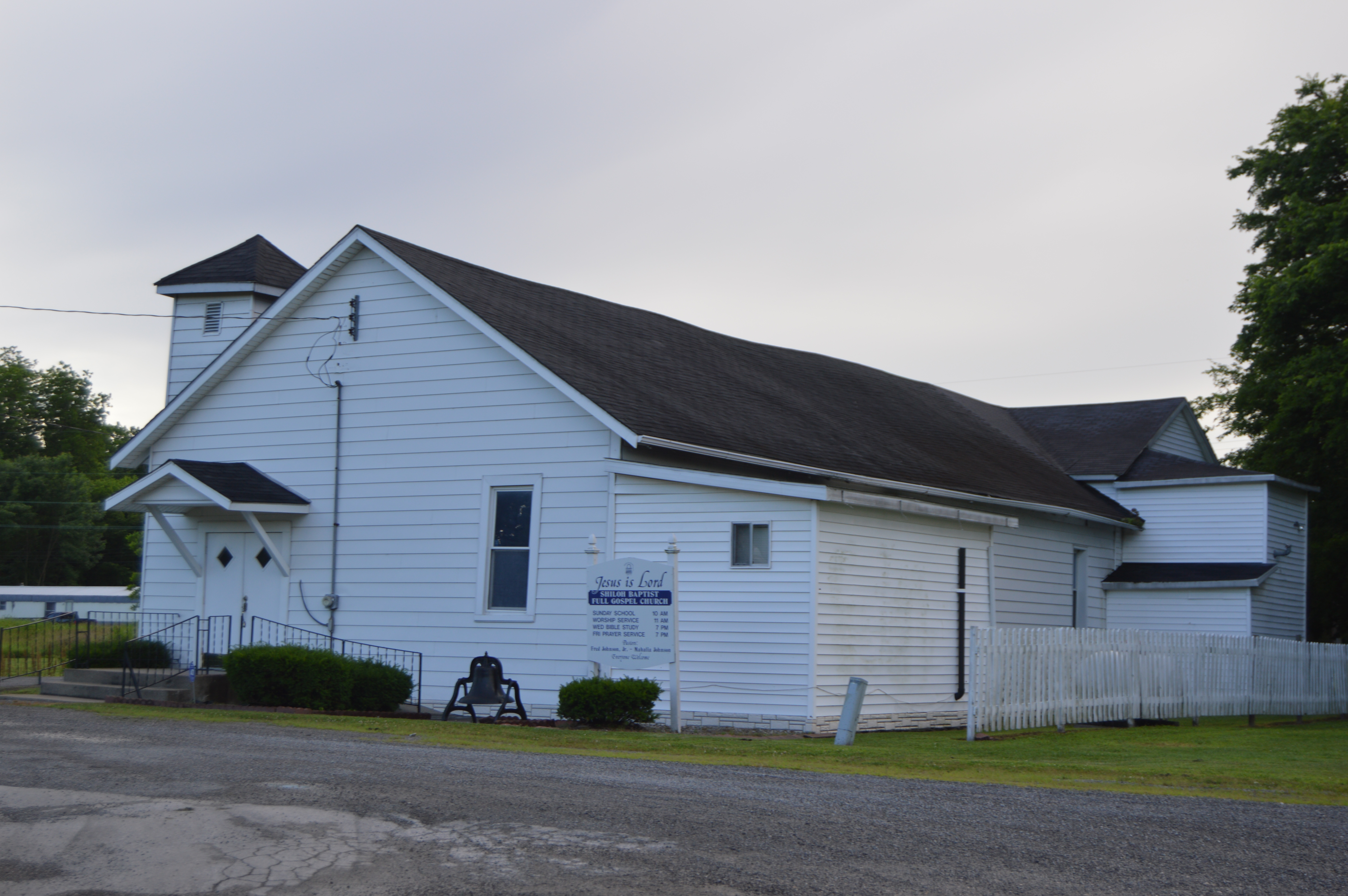 Front and northern side of Shiloh Baptist Full Gospel Church, located on First Avenue in Future City, Illinois, United States.